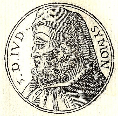 Simon Maccabaeus (died 135 BCE) was a son of Mattathias and thus a member of the Hasmonean family.